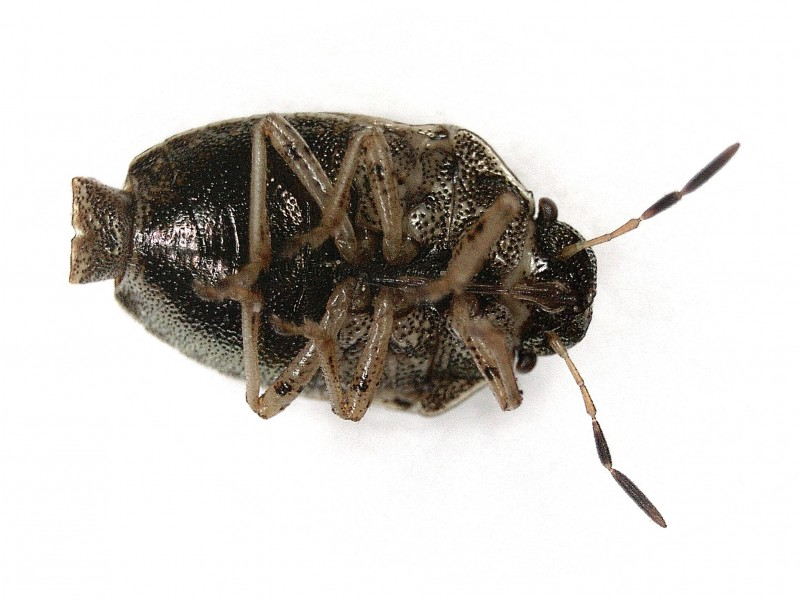 Neottiglossa pusilla (Pentatomidae) (Small Grass Shieldbug) - (male imago), Molenhoek - NS-terrein, the Netherlands